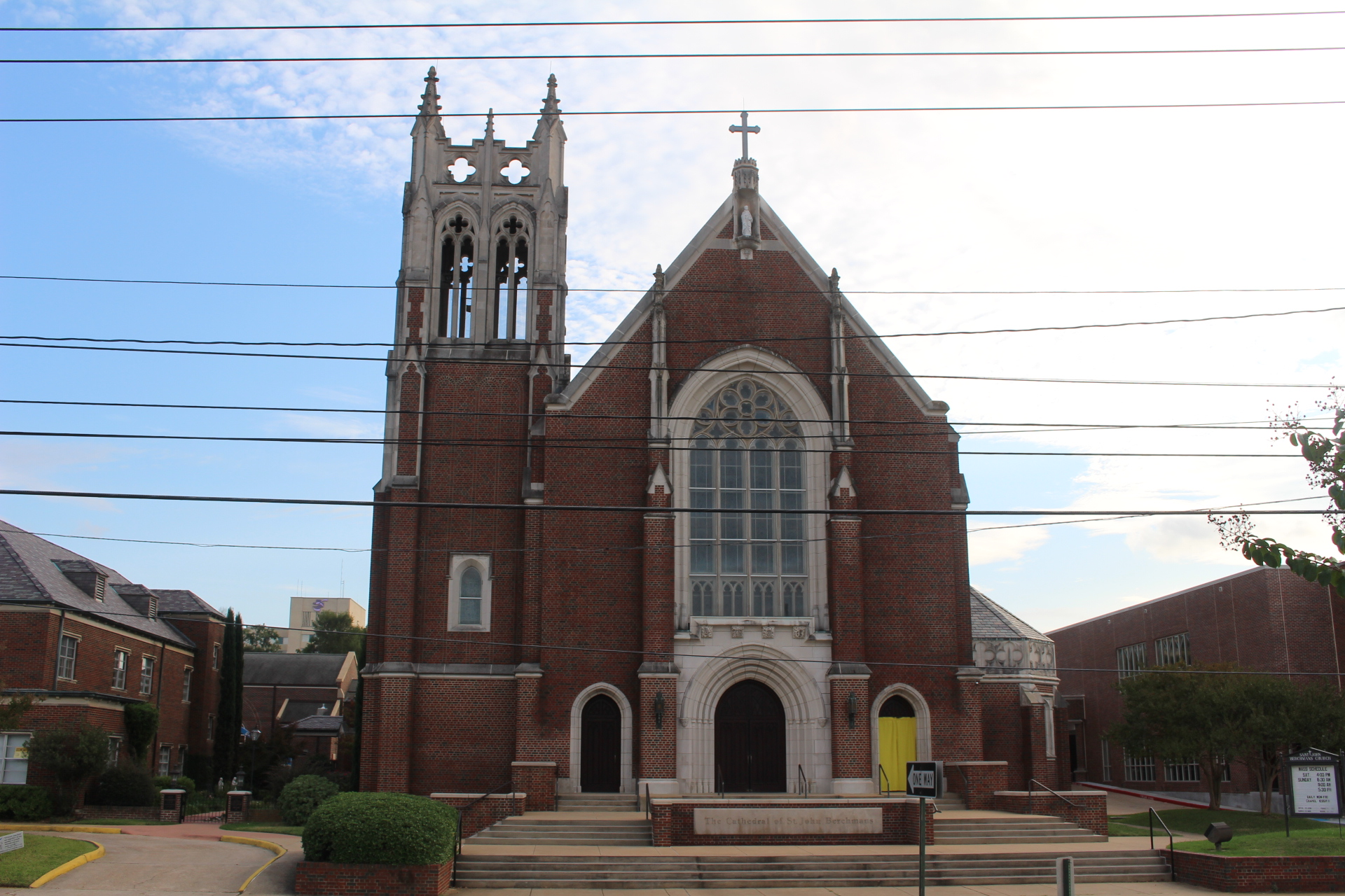 Own work. Uploaded the same day I took the pictures.